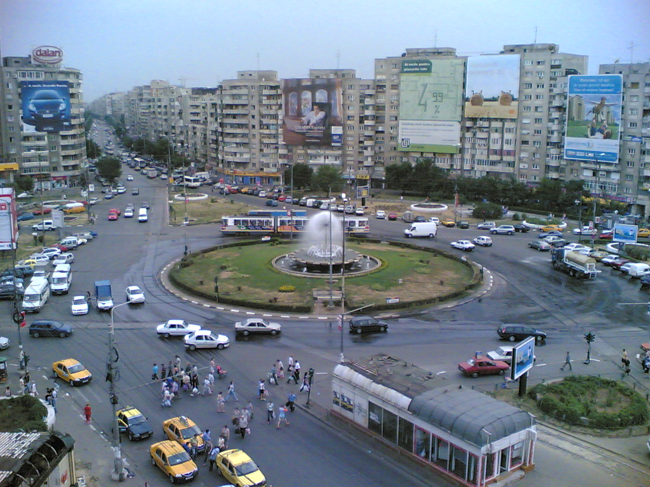 Obor Sq.